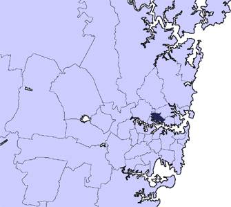 Locator Map Lane cove lga sydney.png Based on Image:Ku-ring-gai sydney.png by User:Randwicked.